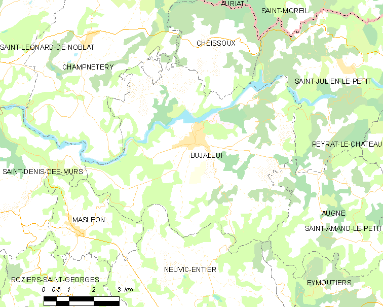 Map of French municipality Bujaleuf